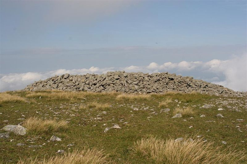 Bronze age cairn on Drosgl, Carneddau